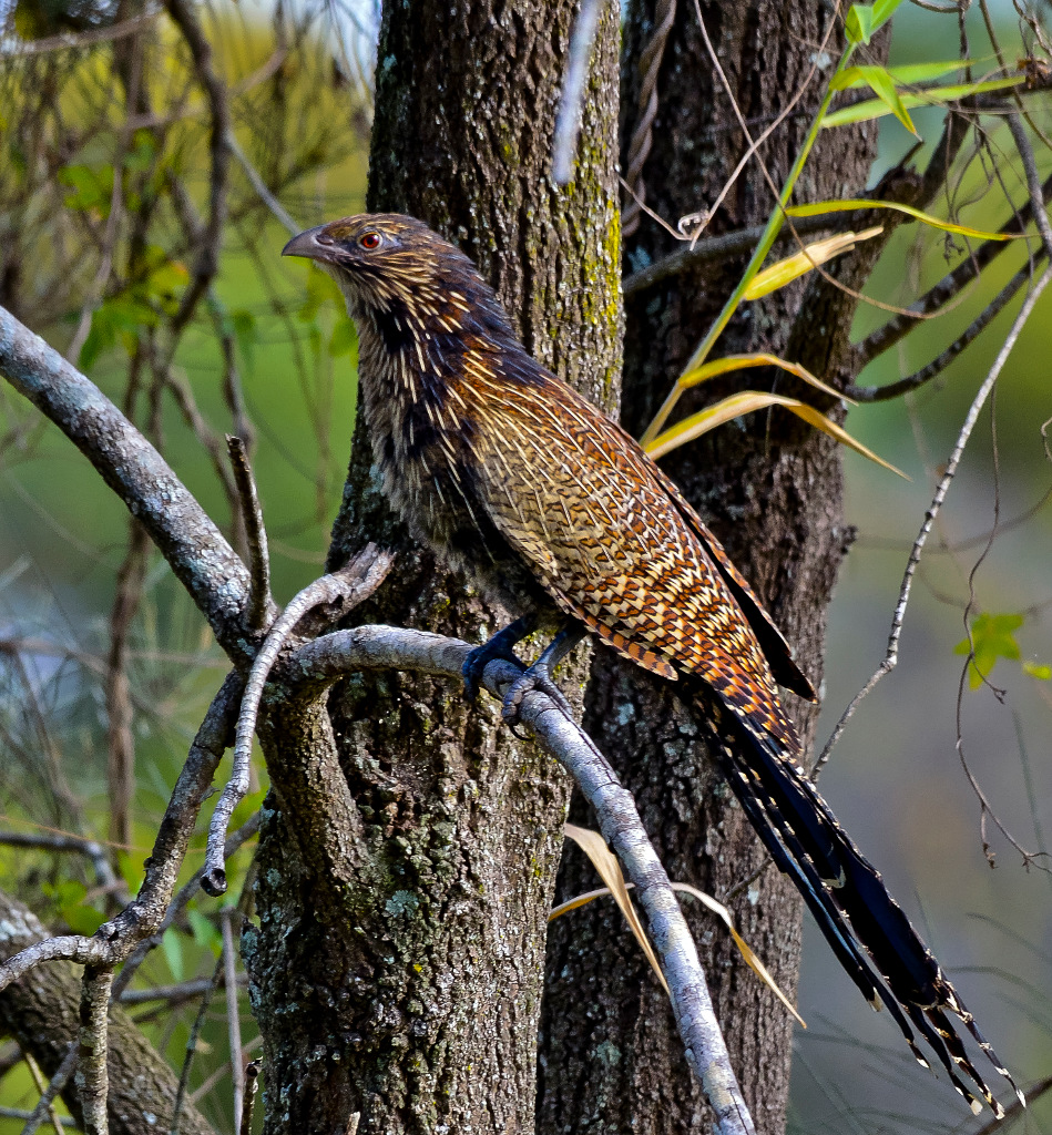 A Pheasant Coucal in Queensland, Australia.